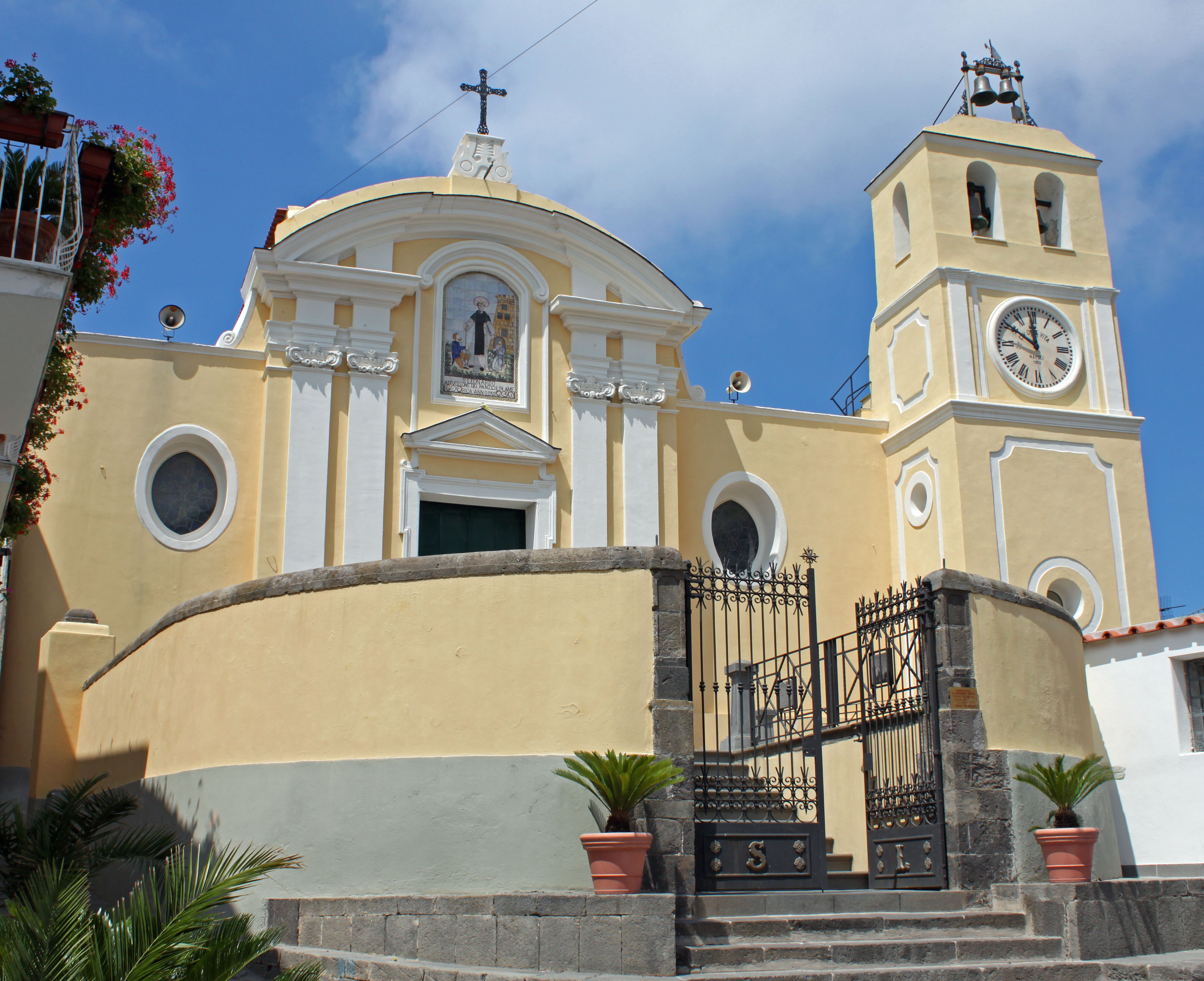 Parish church in Panza d'Ischia